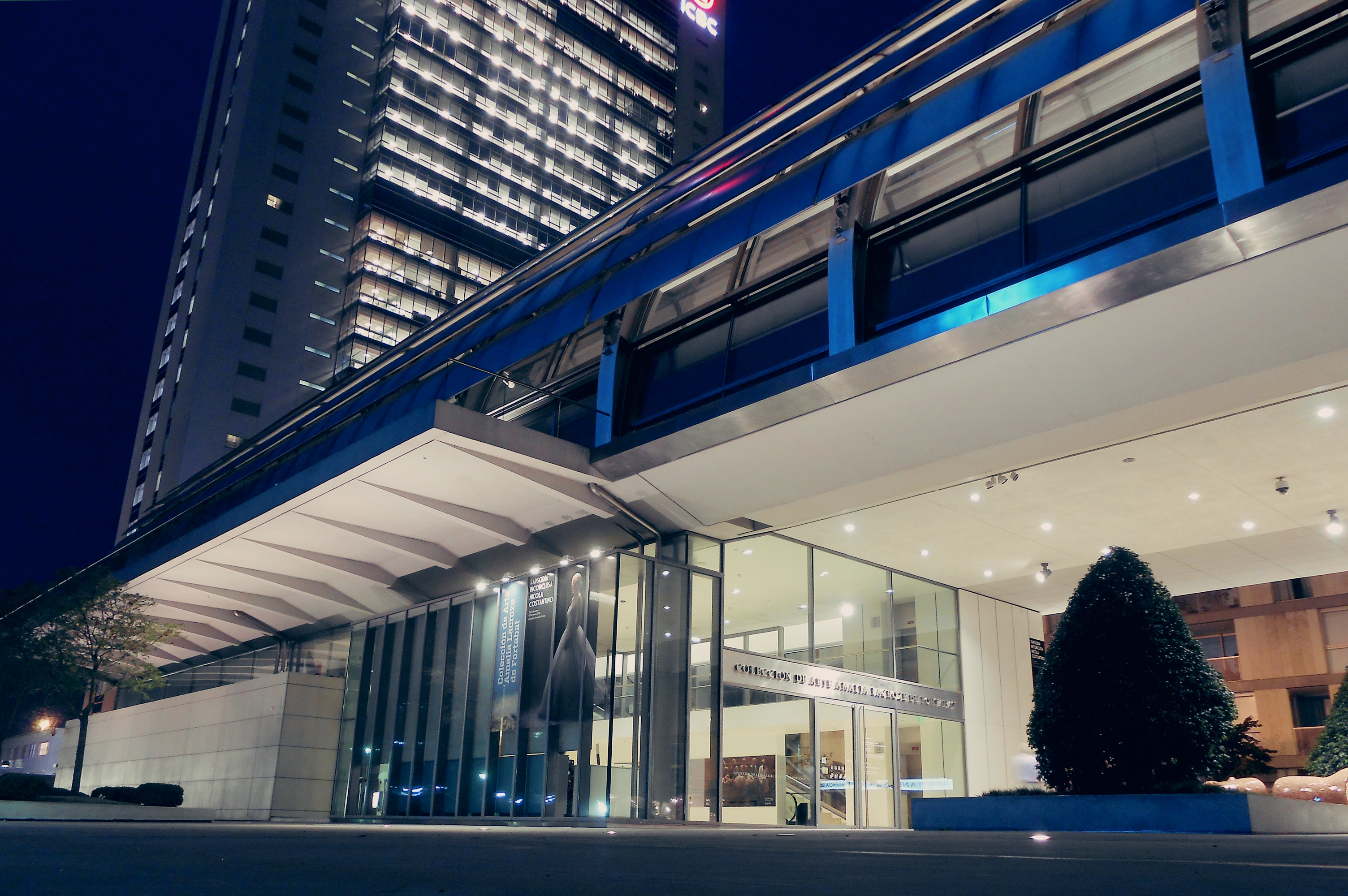 Amalia Lacroze de Fortabat Art Collection - night view.